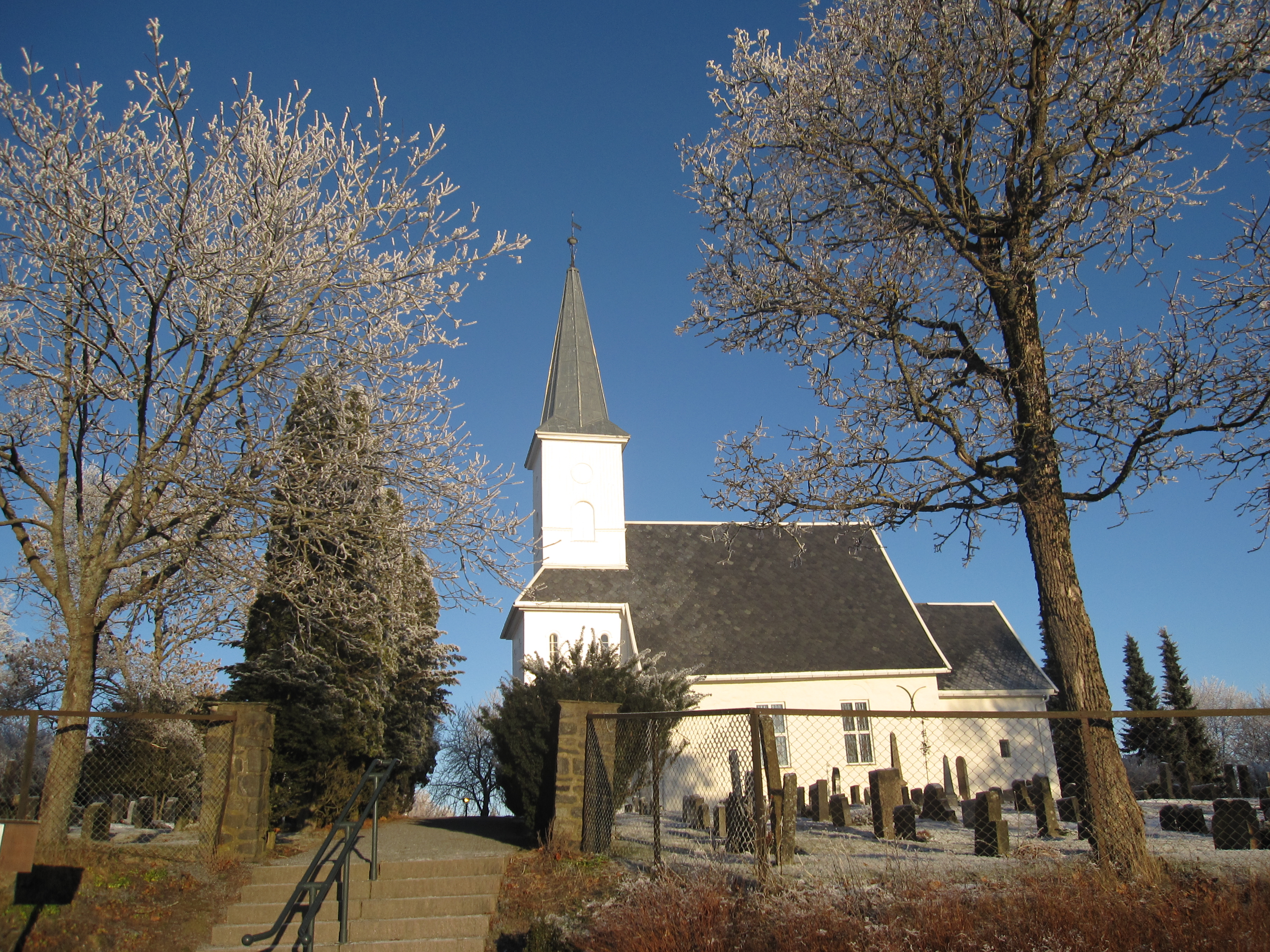 Lørenskog church in the winter sunshine on the first day of the new year.